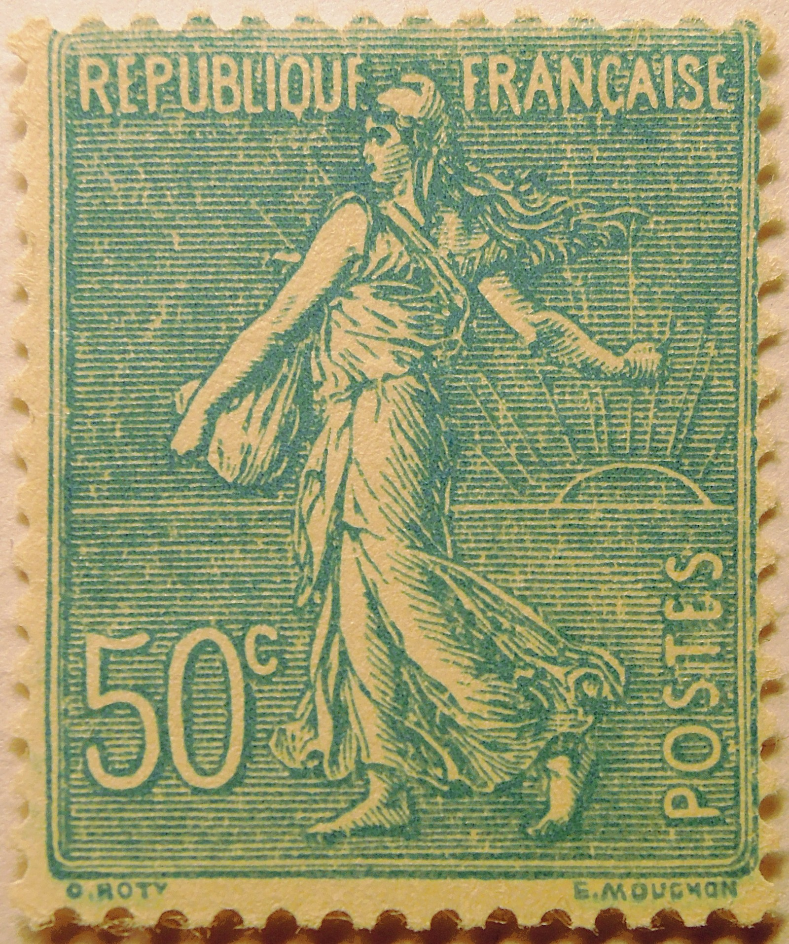 French postage stamp, variety: Marianne Semeuse, 50 centimes, 1921.